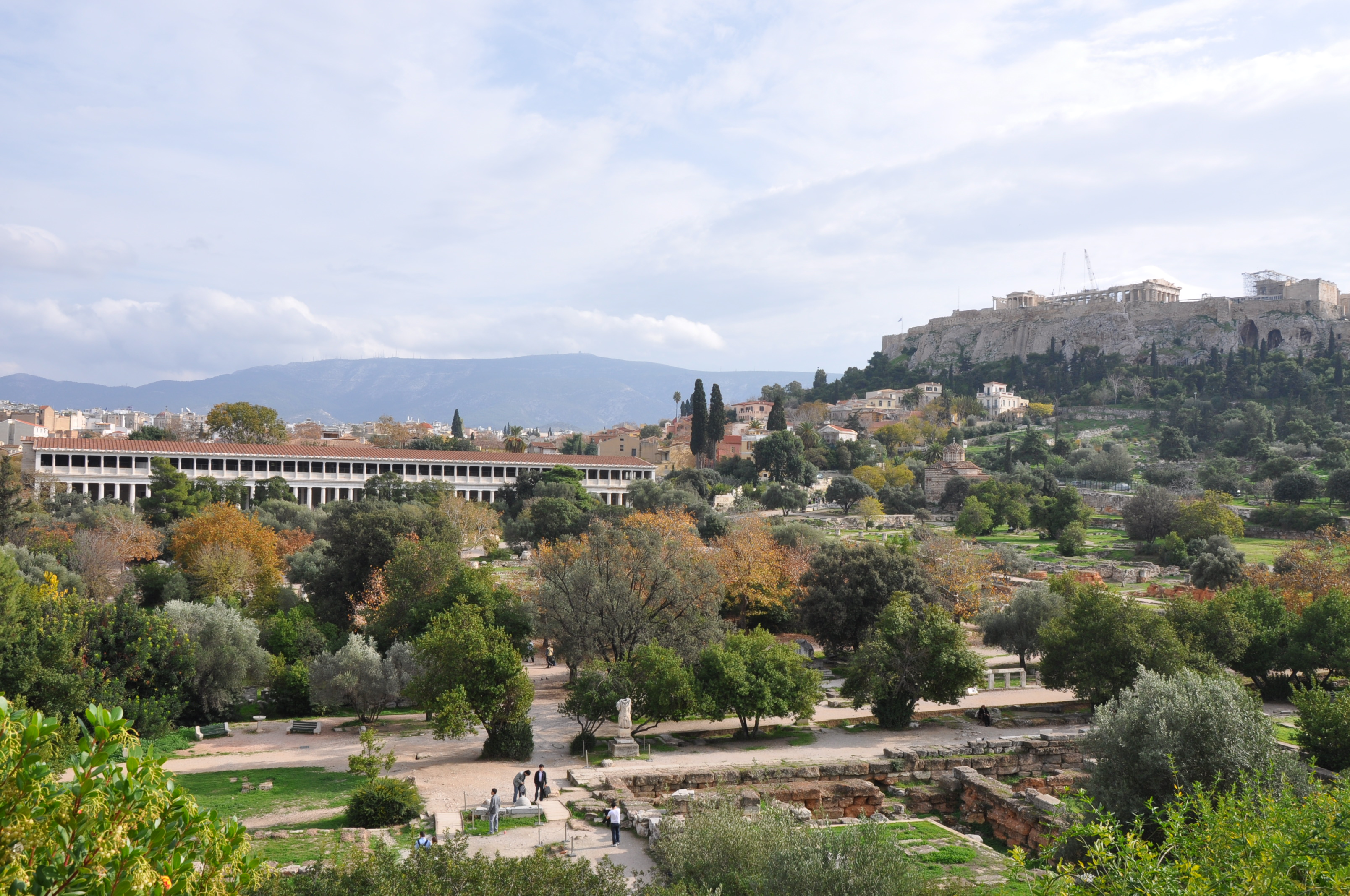 Stoa of Attalos (Left) and Acropolis (Right)